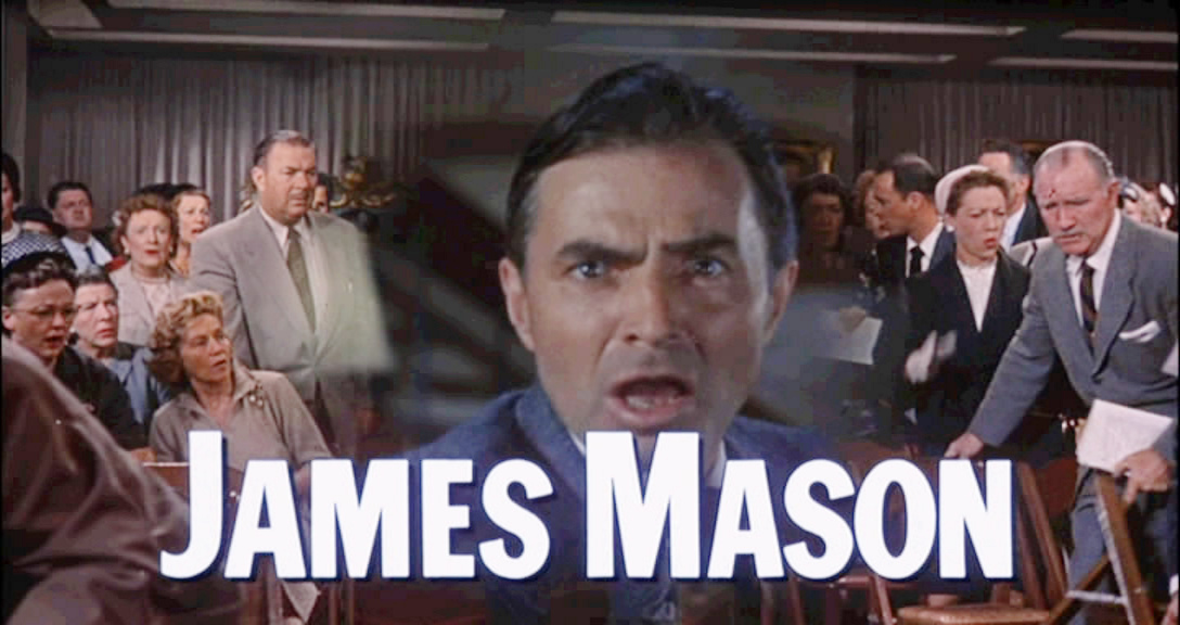 Cropped screenshot of James Mason from the trailer for the film North by Northwest